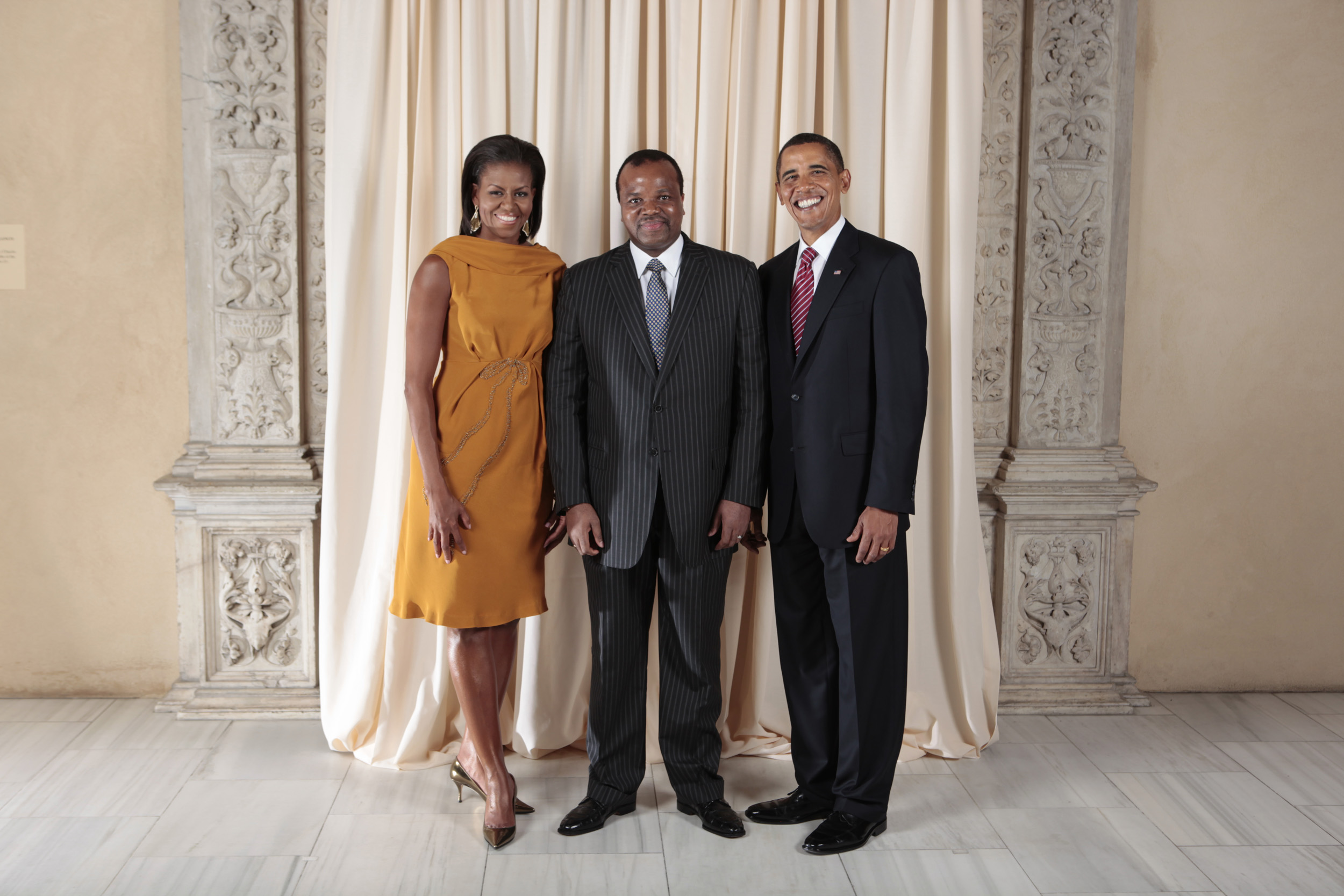 President Barack Obama and First Lady Michelle Obama pose for a photo during a reception at the Metropolitan Museum in New York with King Mswati III of Eswatini.